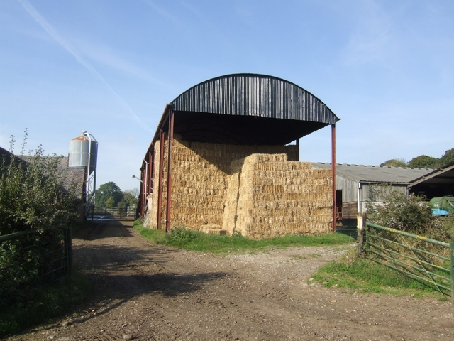 Barn at Clanford Hall Farm Bales stacked high in this typical barn at a dairy farm.